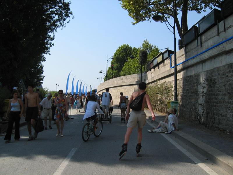 A view of the Paris Plages 2005